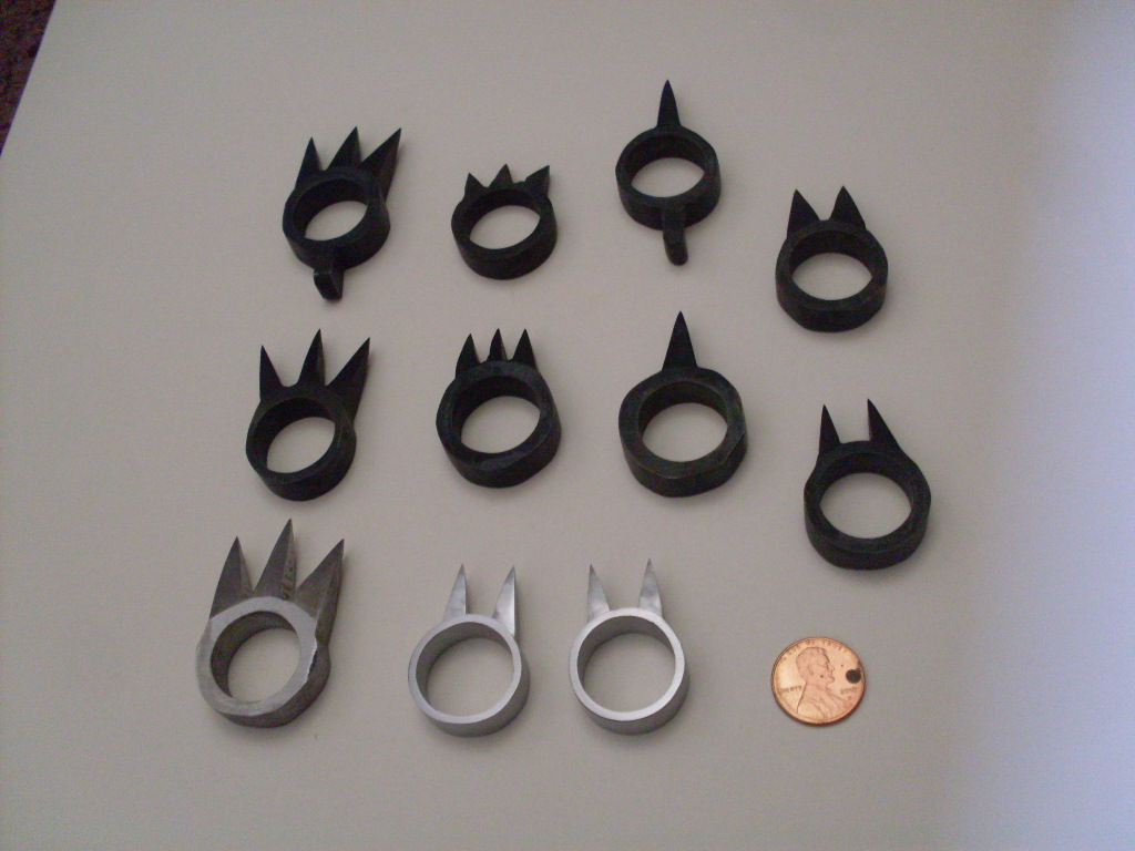 Kakute I made, each from one solid piece of 1050 high carbon steel and hardened.